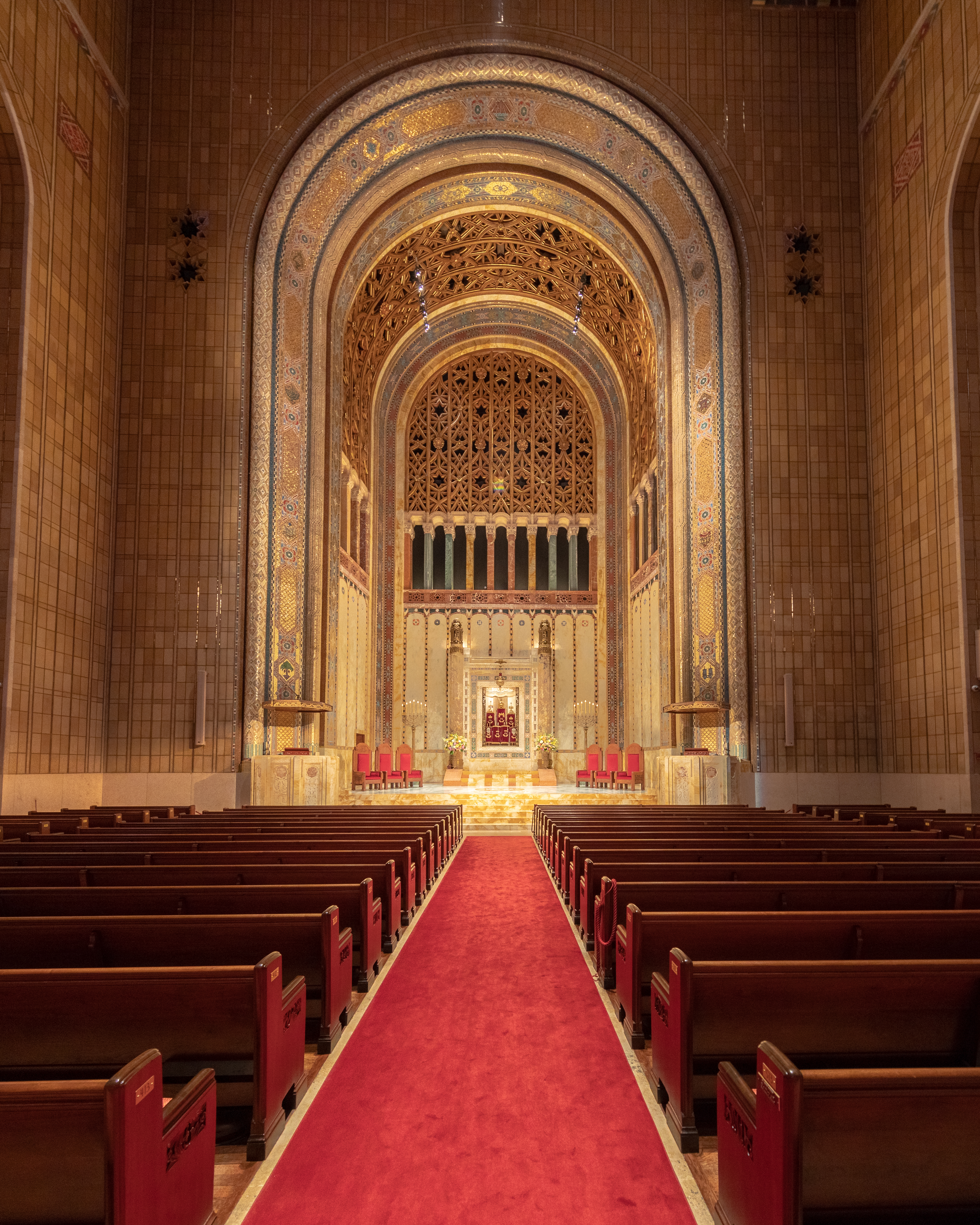 Congregation Emanu-El of New YorkSite: Congregation Emanu-El of New York